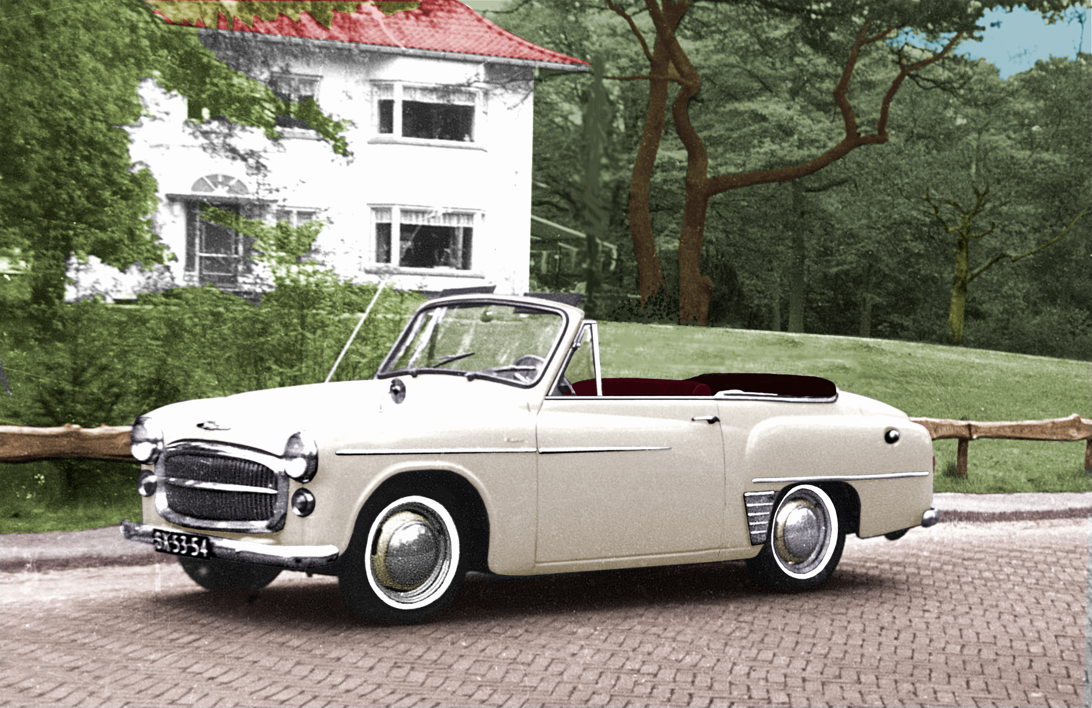 The Hillman Minx convertible MK VIII, build in 1955. Photo former black/white, retouched in color, driver en passengers rerased, date photo augustus 1963.